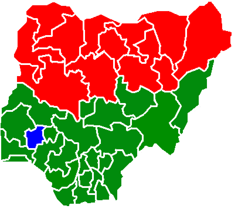 States won by Jonathan, Buhari, Ribadu